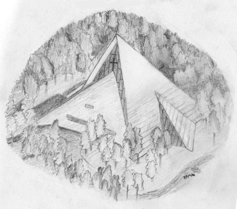 The church of Hyvinkää, Finland. Pencil drawing. Drawn by Pertsaboy.